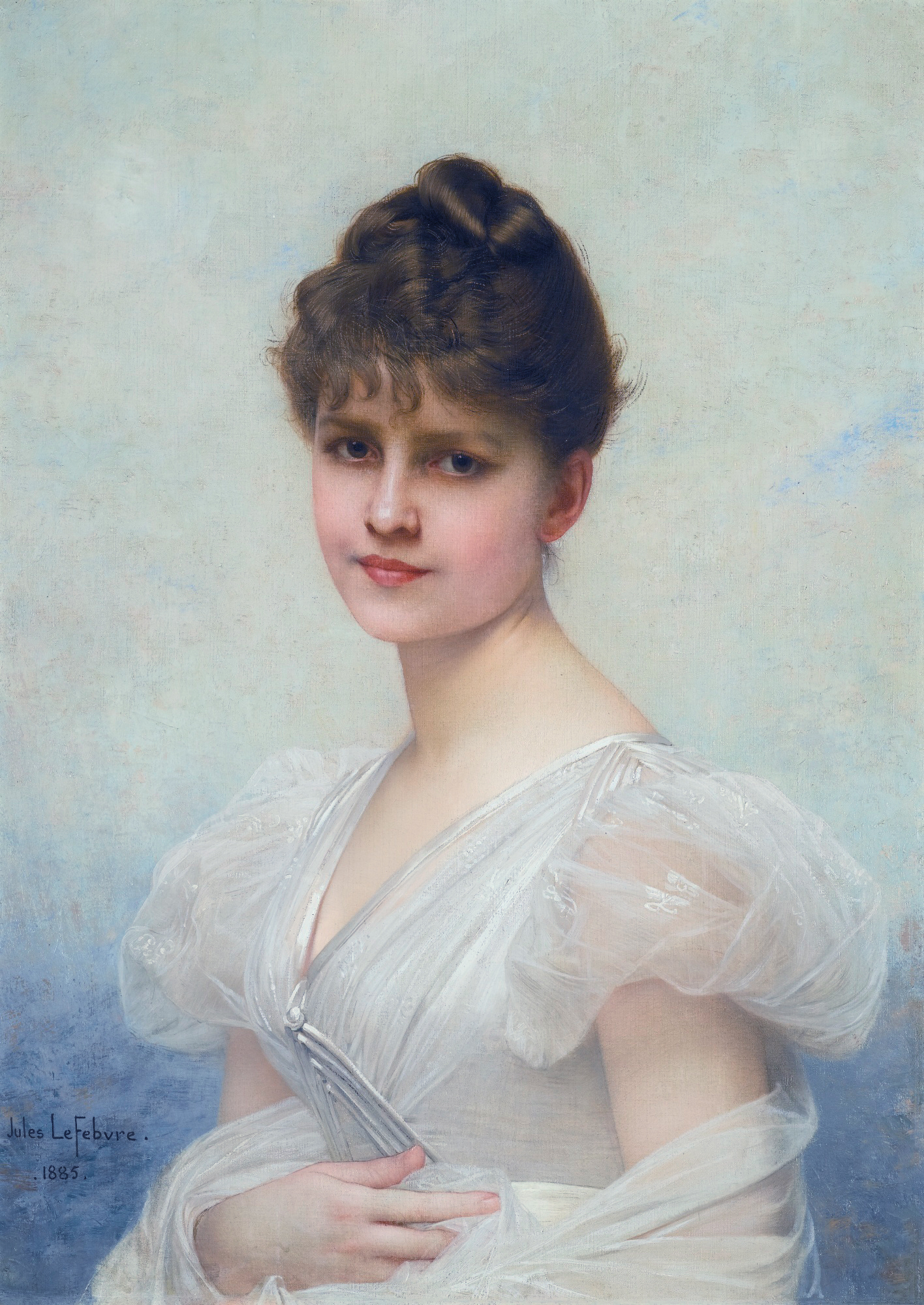 Edith Caroline Warren Miller (1866-1944) oil on canvas 70.7 x 50.5 cm signed b.l.: Jules LeFebvre / 1885